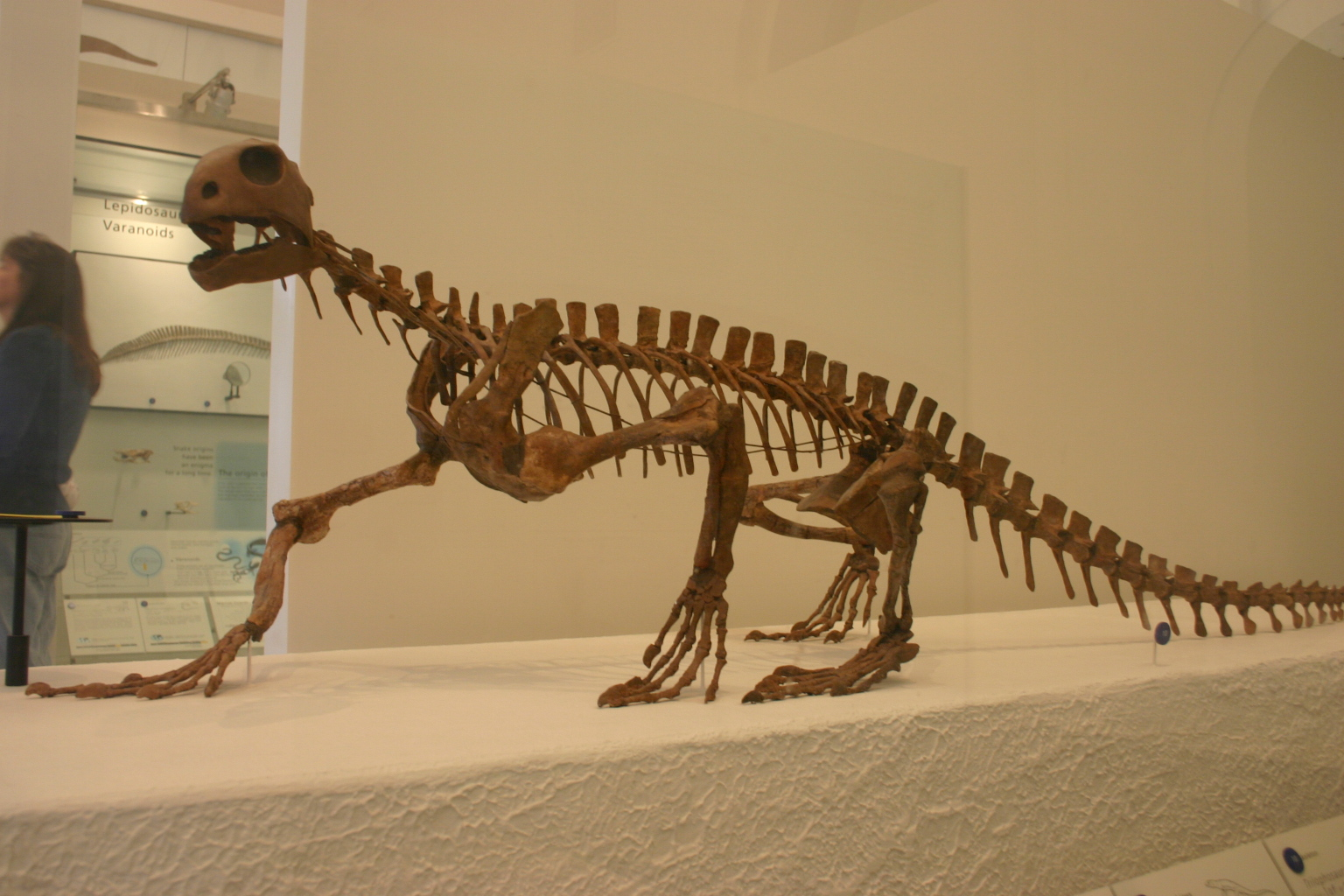 "three-crested [tooth] reptile" Visit my blog at